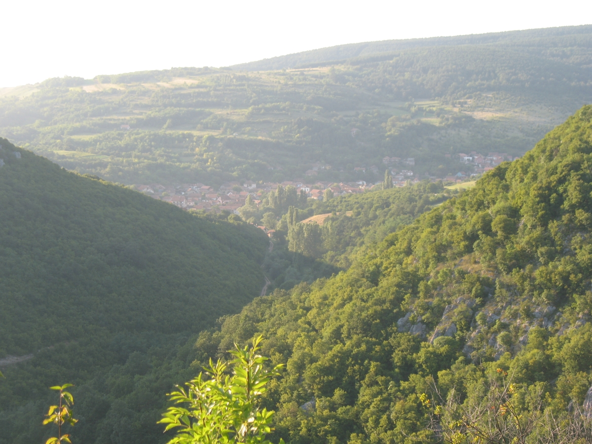 View on Zabrega village from Petrus fortress near Paraćin,Serbia.